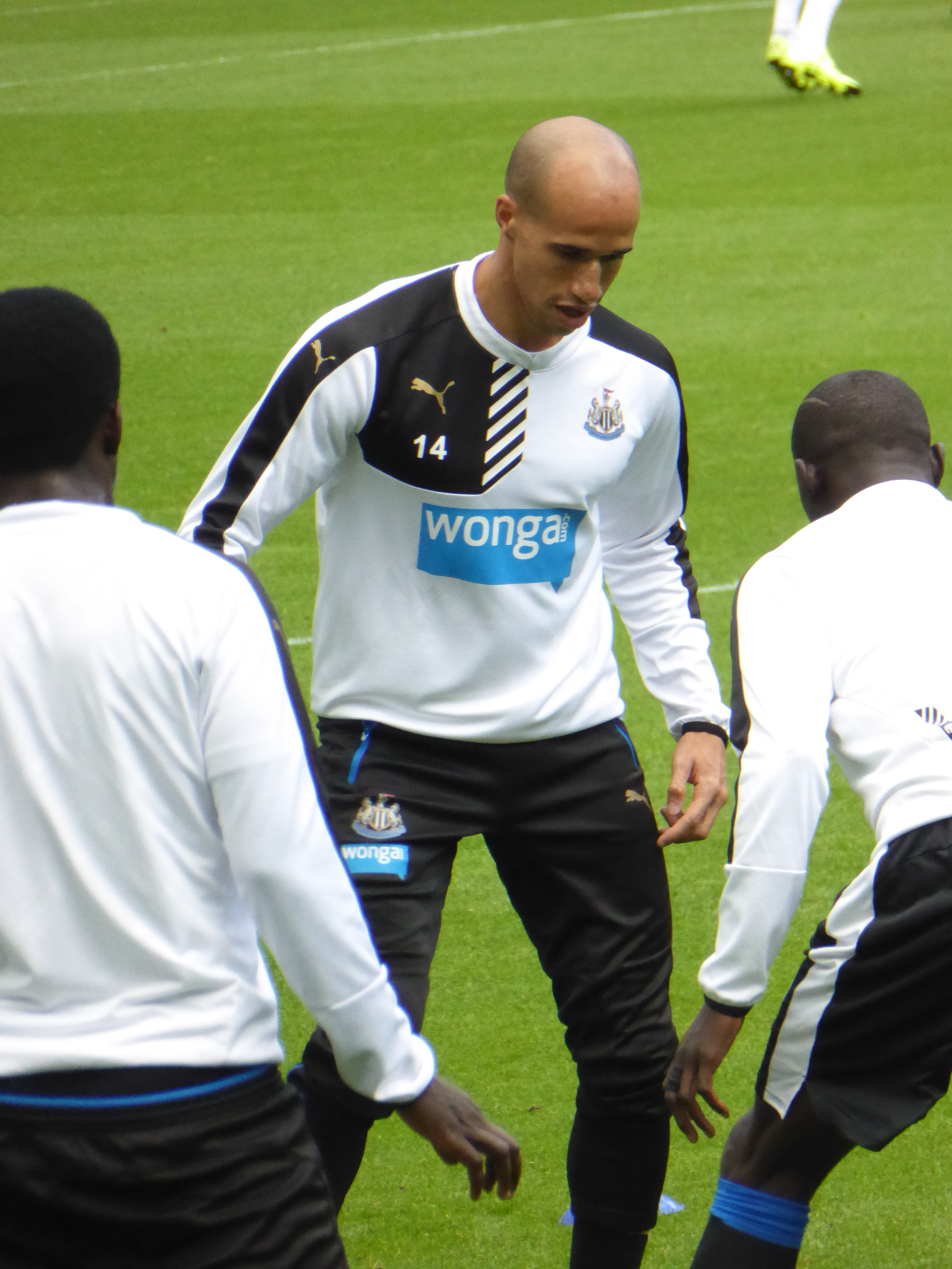 Newcastle United vs Arsenal (0-1), St James' Park, Newcastle upon Tyne, Tyne and Wear, England, August 2015